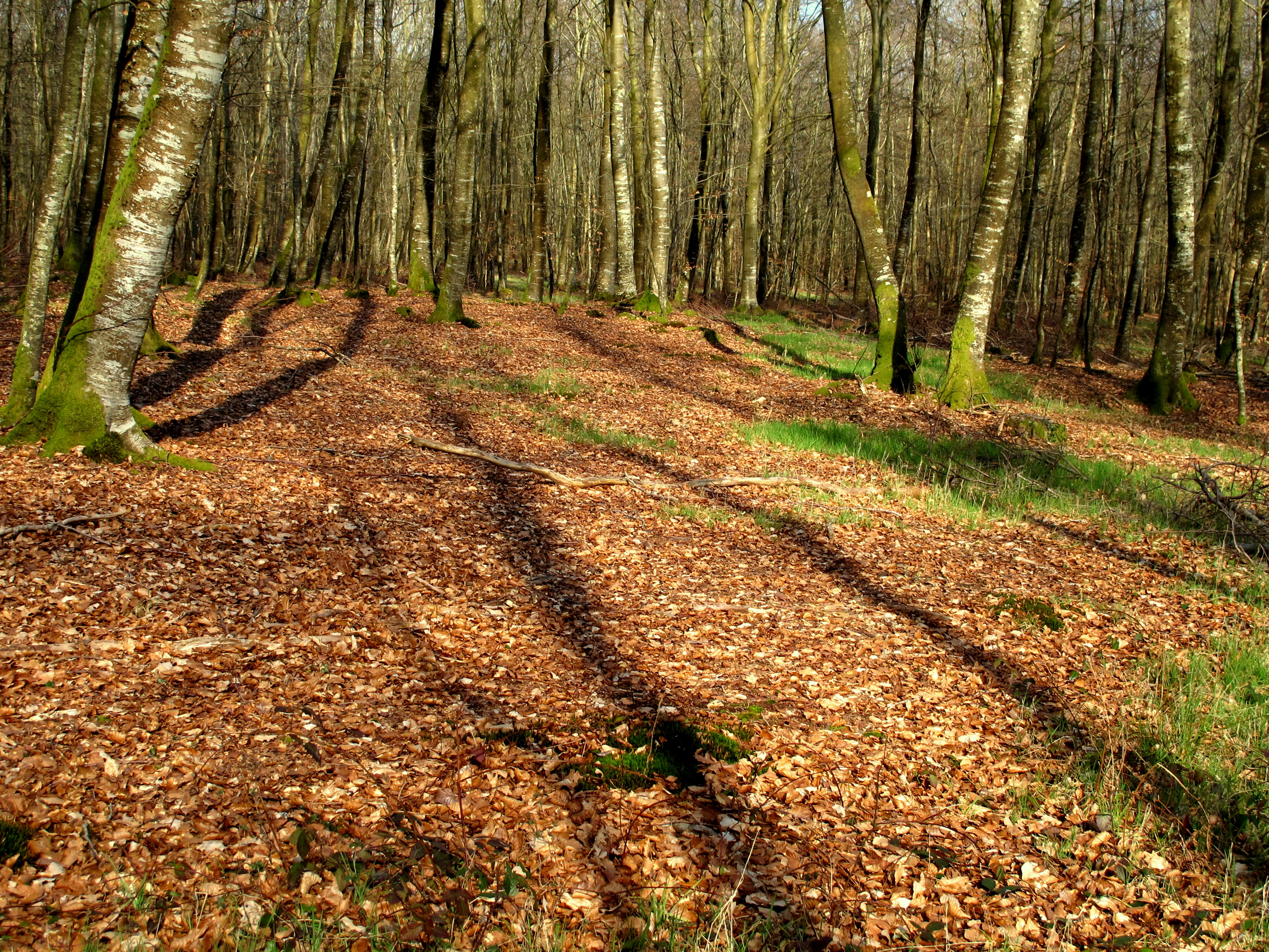 One of the first nice days in the woods of Cerisy, Manche, Basse Normandie. The trees and shades reinvent geometry.